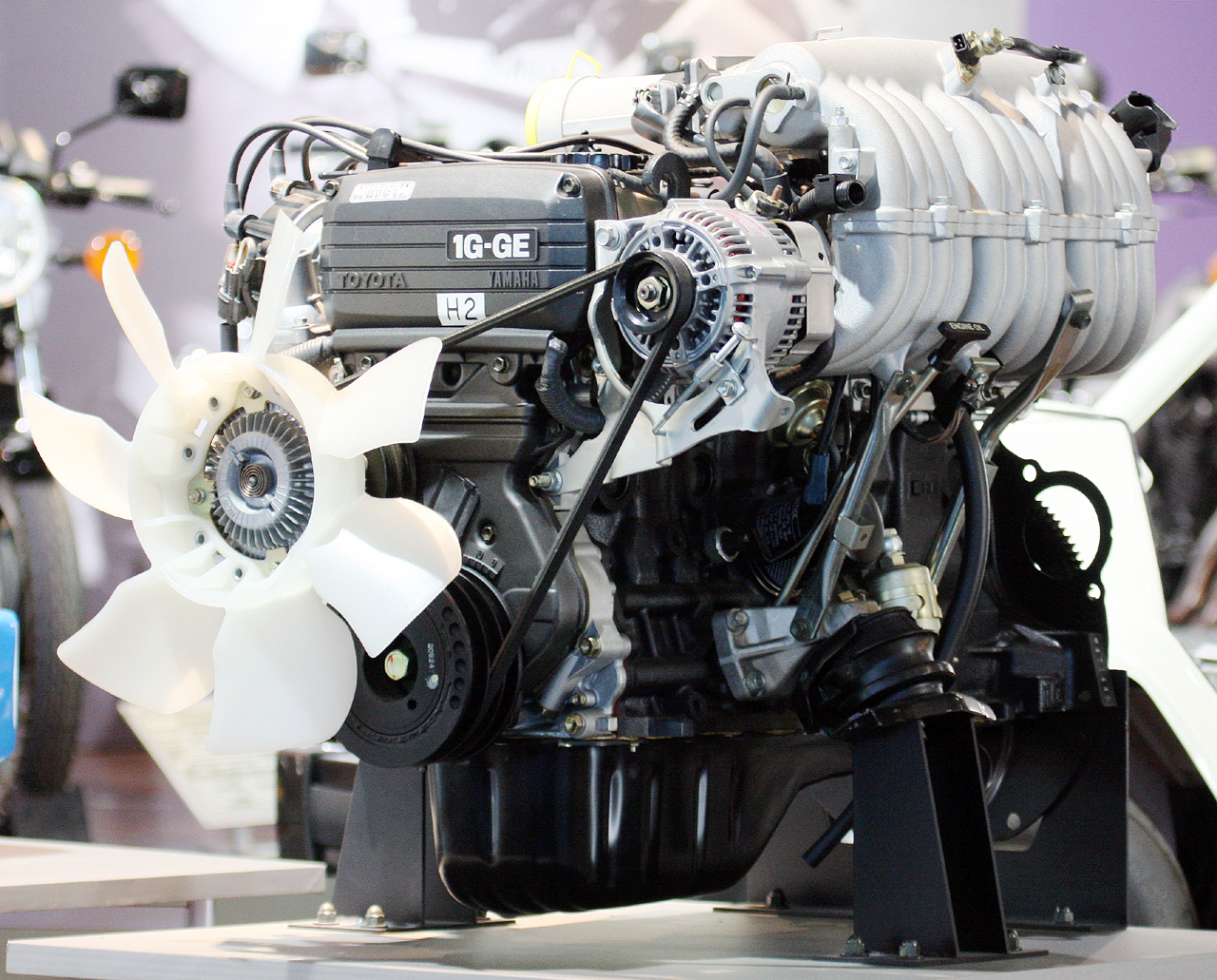 1982 Toyota 1G-GE Type engine. L6 1,988cc